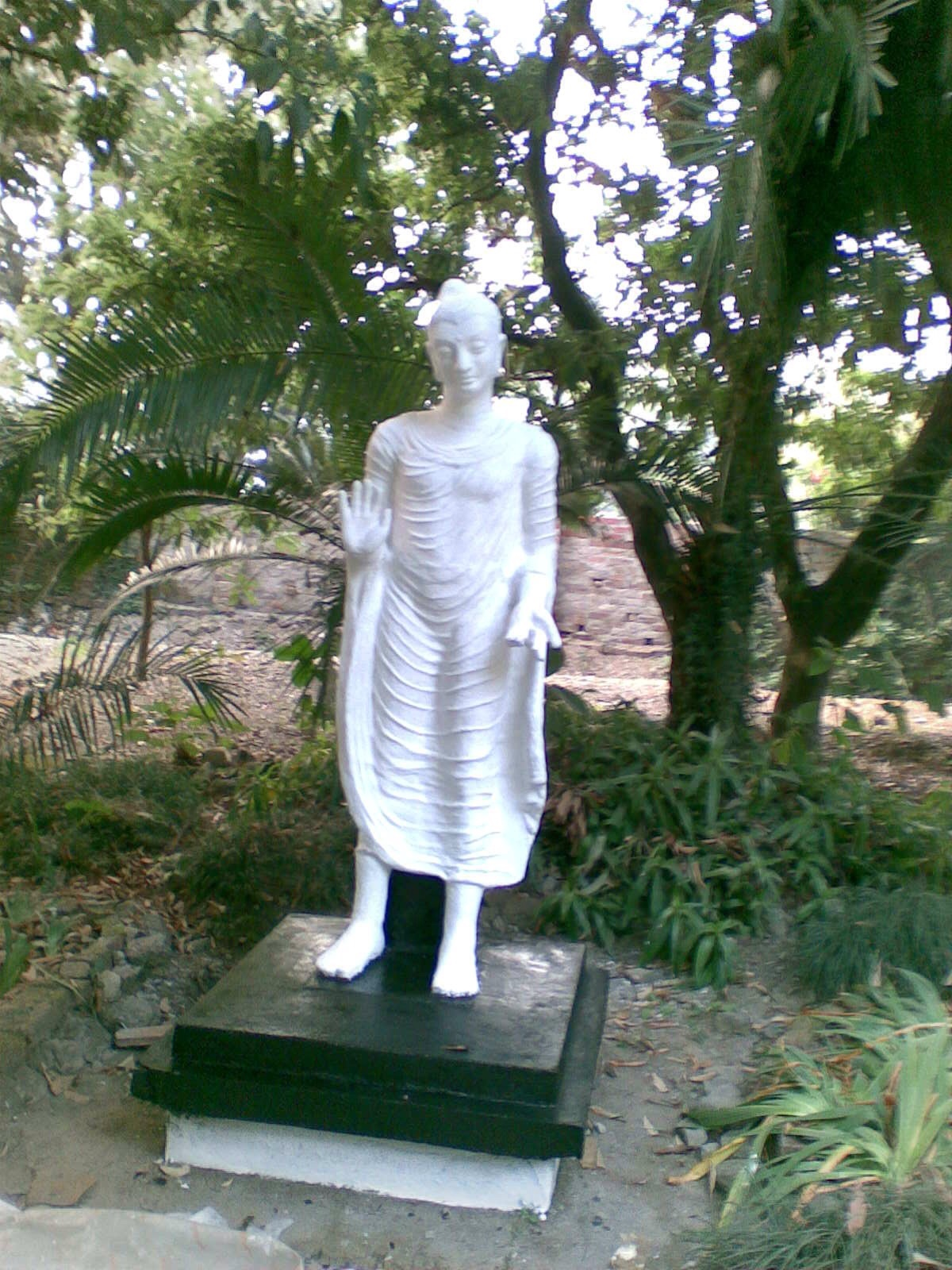 Statue at his residence shows love of Dr Balbir Singh for Indian philosophers and religious leaders